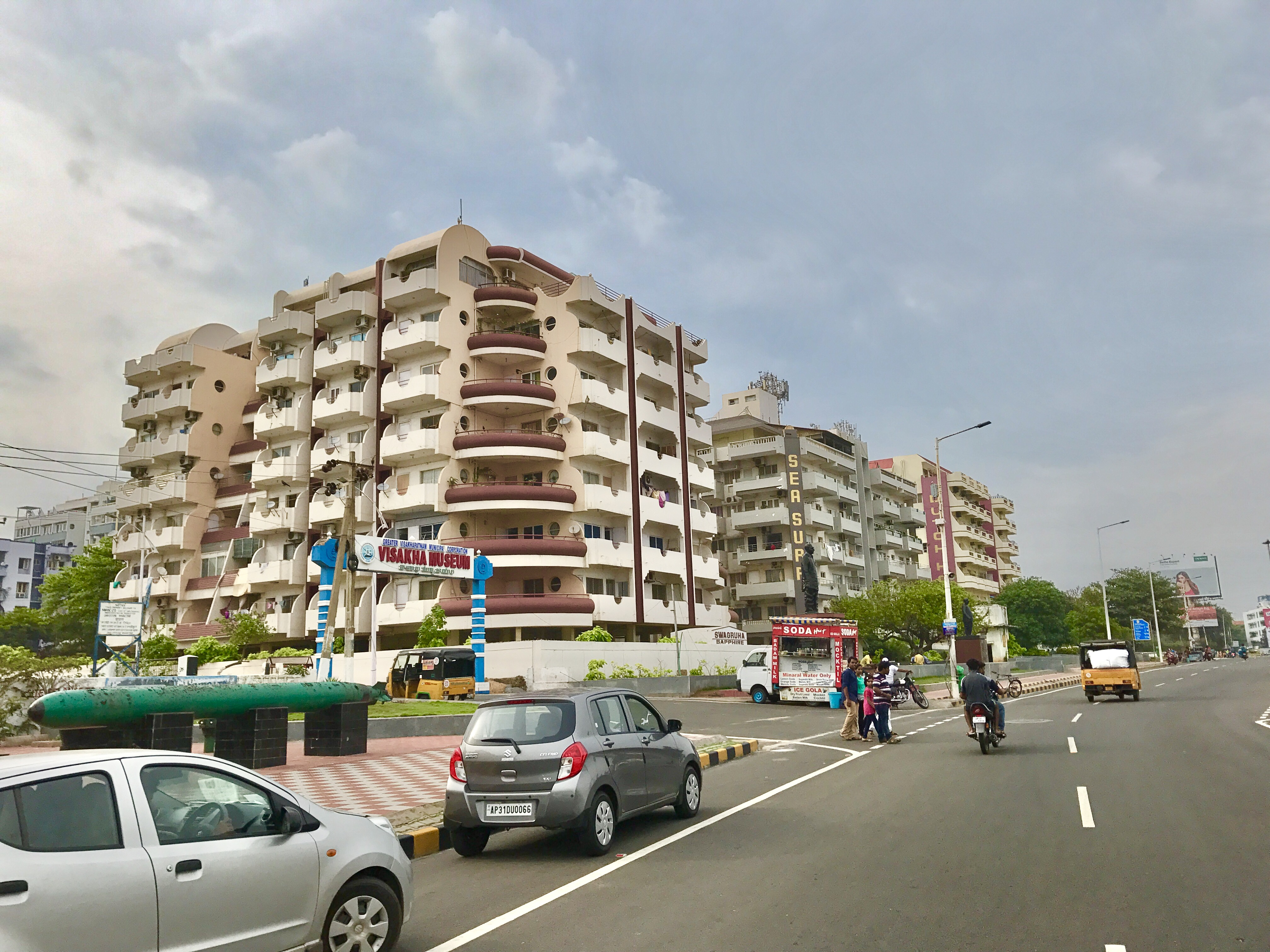 Entry Board of Visakha Museum on Beach Road